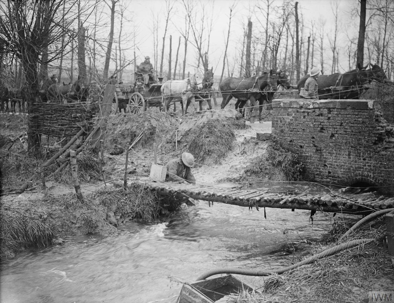 The Battle of the Somme, July-november 1916 Battle of the Ancre. Water refilling point. The Ancre River, showing the causeway of the Mill Road, across it. Hamel-St. Divion road, November 1916.